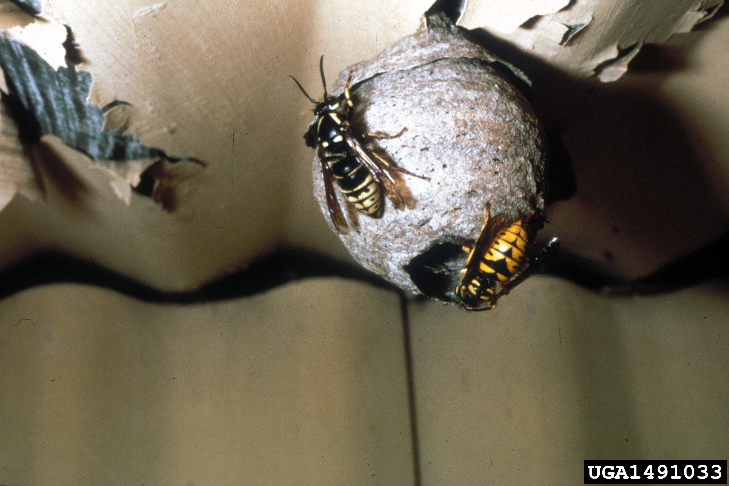 Dolichovespula arenaria and Dolichovespula arctica, Small nest of Dolichovespula arenaria with queen and queen of the parasite D. arctica